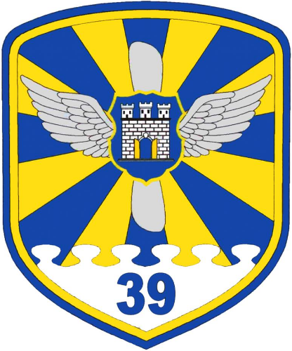 Shoulder sleeve insignia of the Ukrainian Air Force 39th Tactical Aviation Squadron